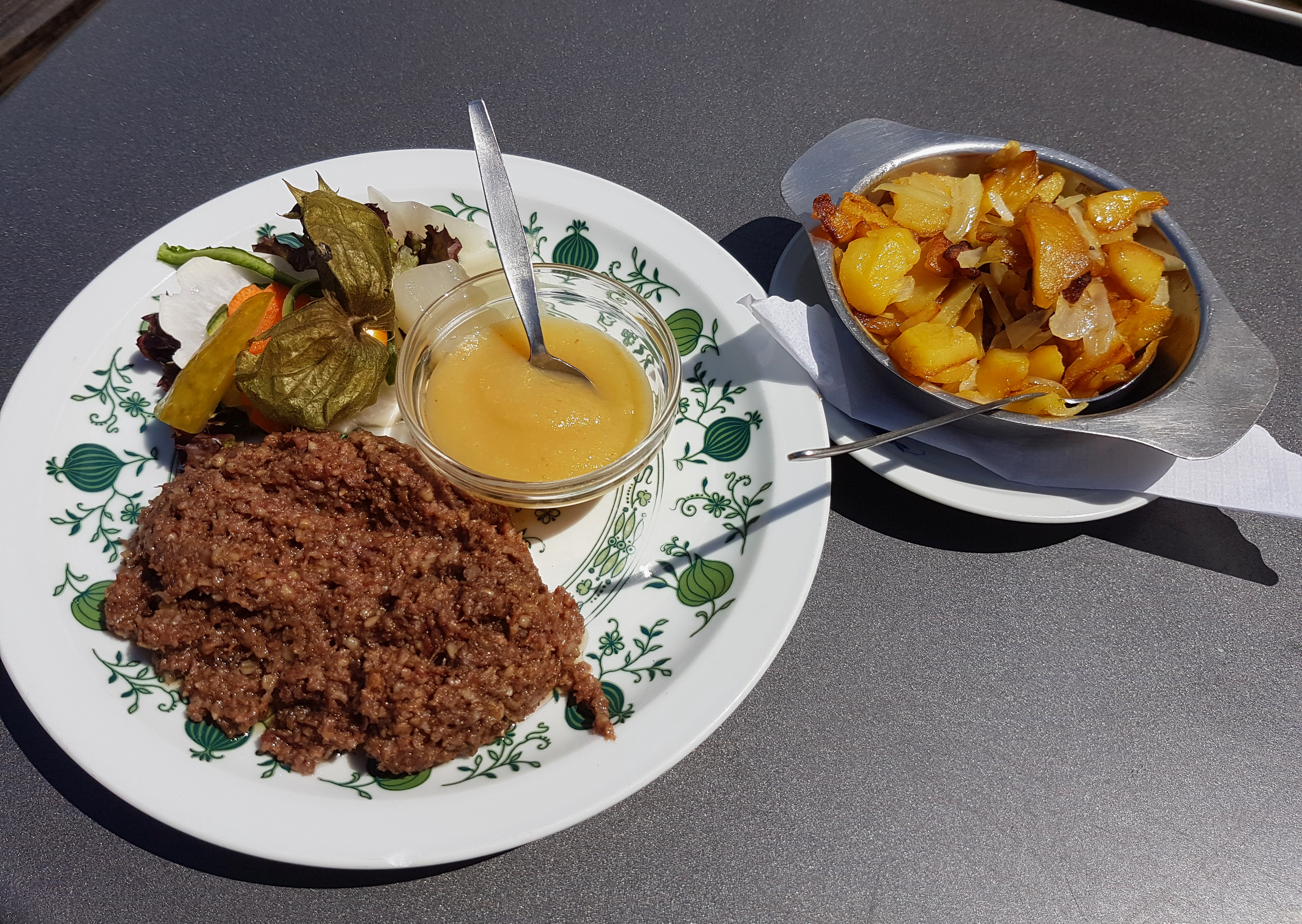 Heidschnuckengrützwurst (Knipp, sausage made by mixing meat with grains) with gherkin and apple sauce, served with fried potatoes. Photographed in the restaurant Gasthaus Zum Heidemuseum, Wilsede.